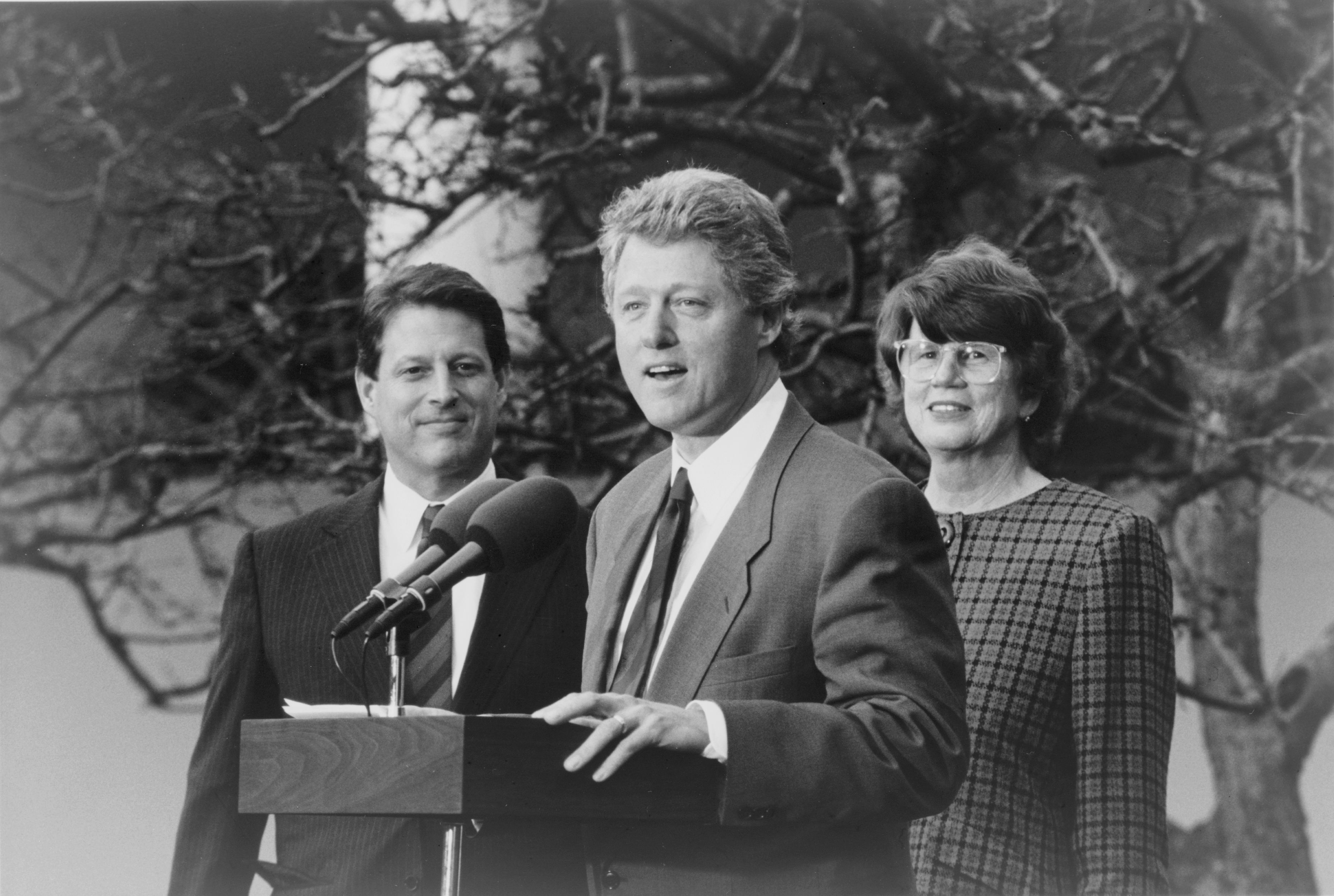 Bill Clinton with Al Gore and Janet Reno